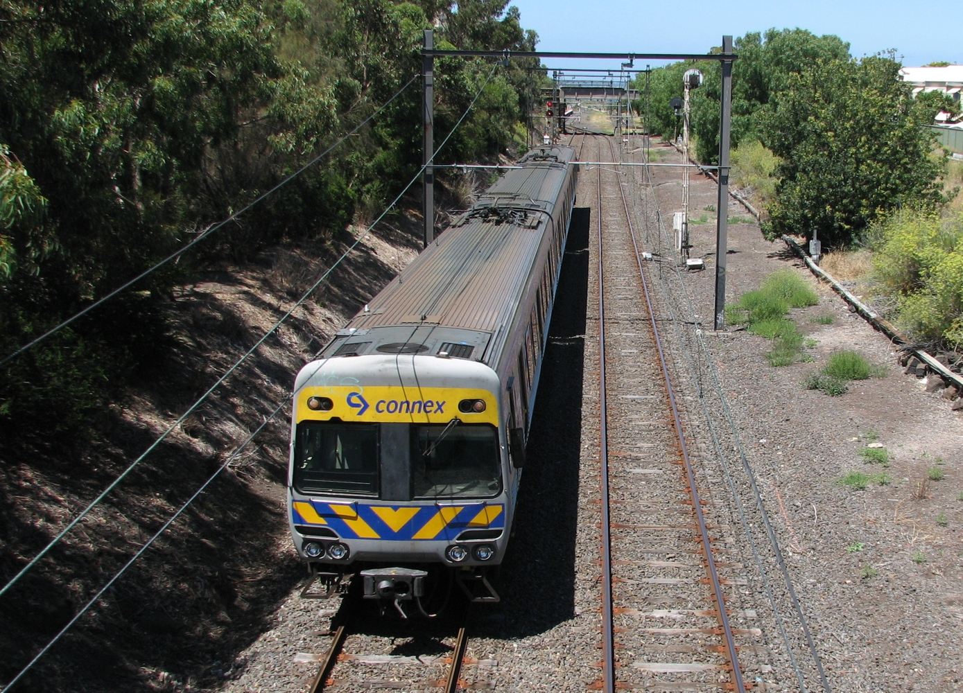 Williamstown Railway Line, Williamstown Victoria, Australia